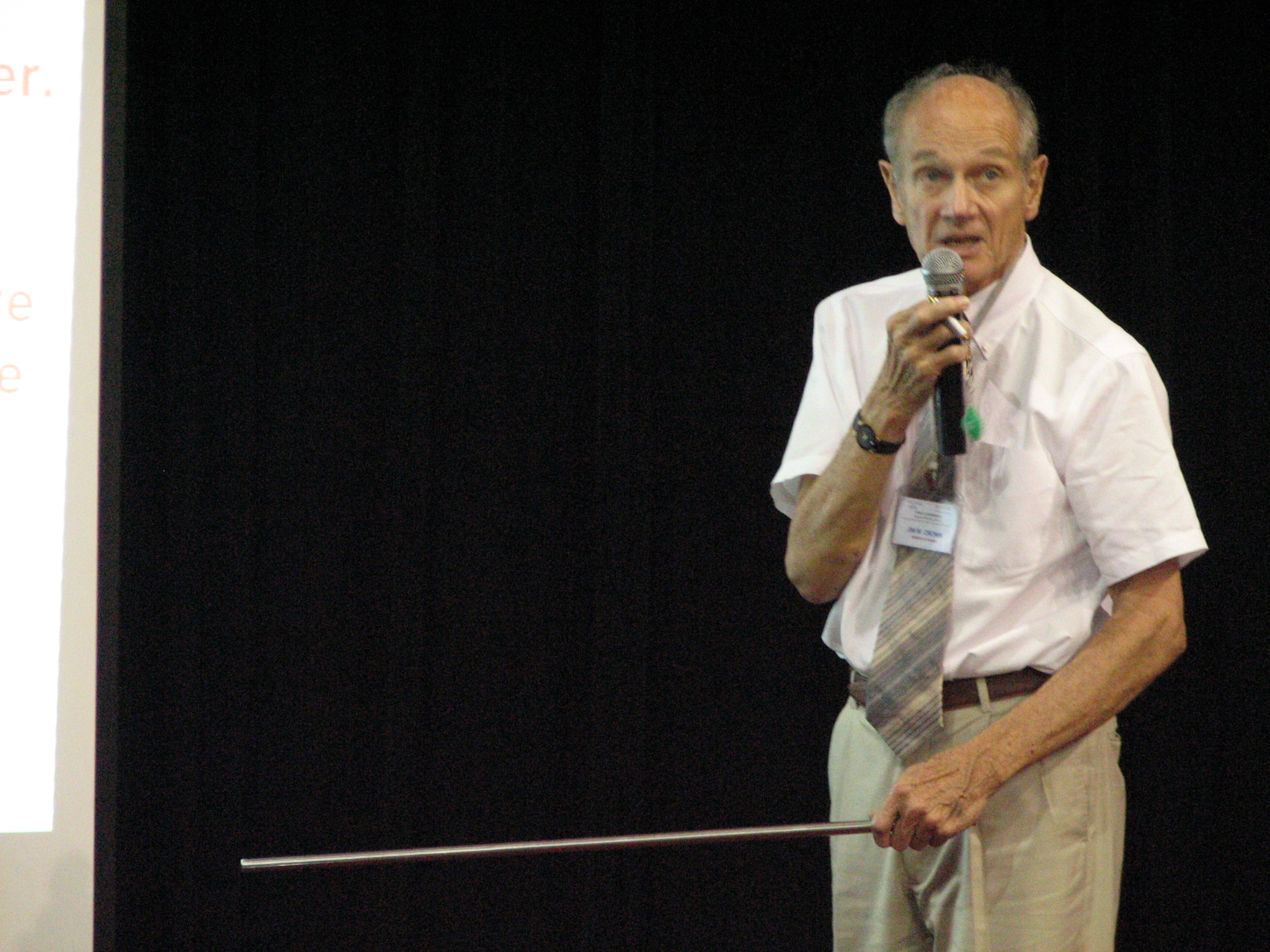 American nuclear physicist James Watson Cronin, 1980 Nobel Prize in Physics, giving a scientific presentation at Vietnam National University, Hanoi, Vietnam on August 4th, 2006.